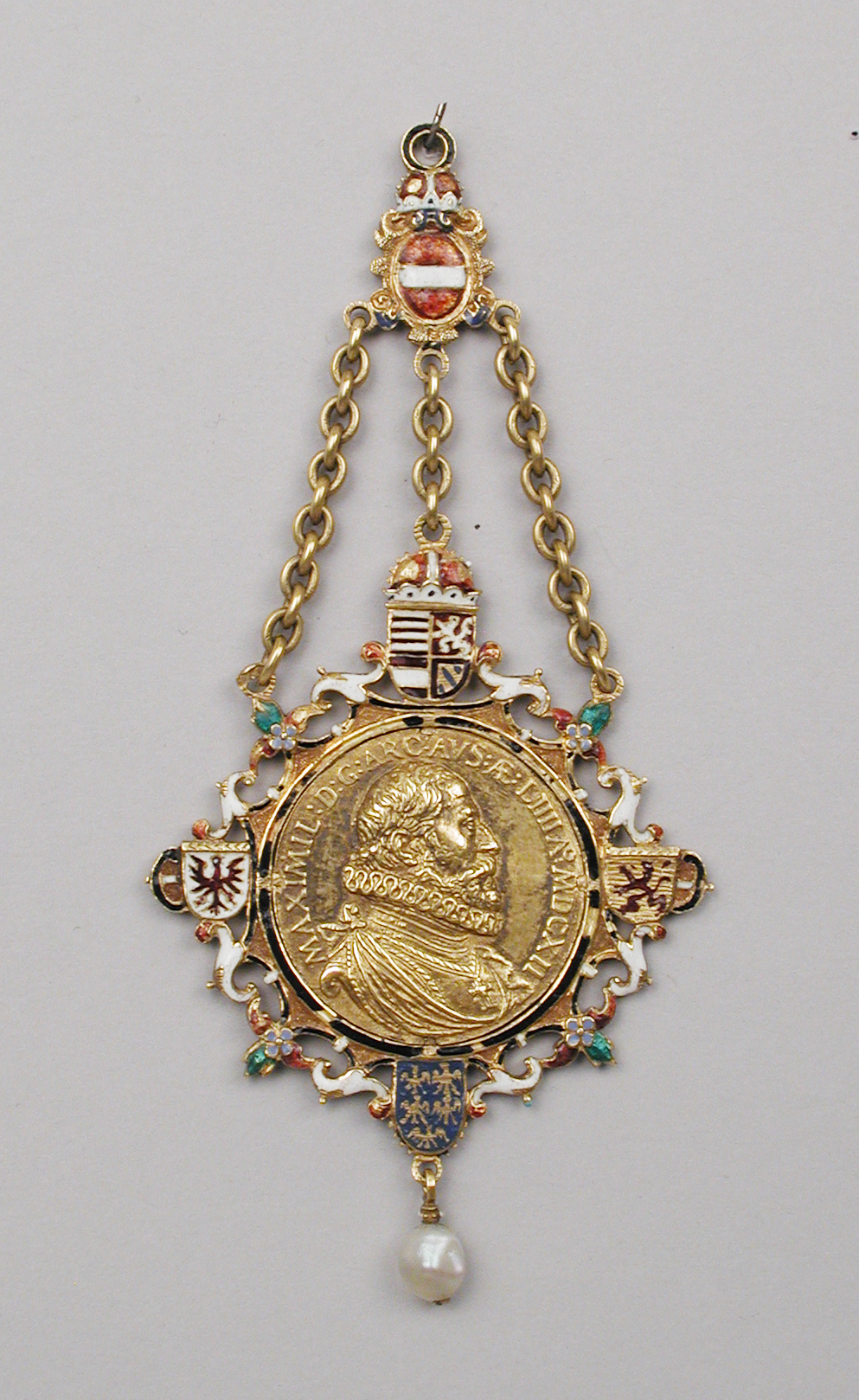 Austrian, probably Vienna; Pendant; Metalwork-Gold and Platinum